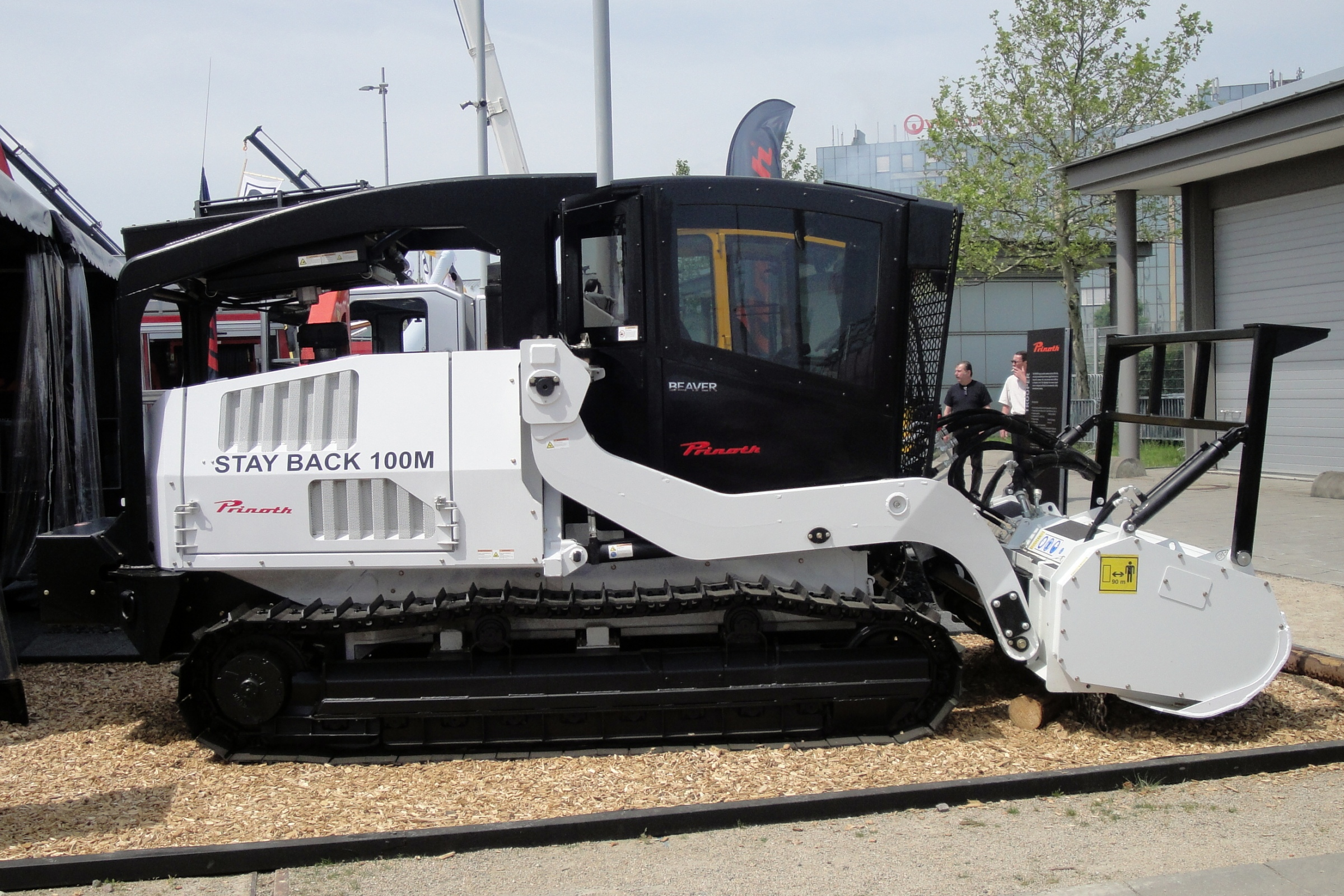 Prinoth Beaver, forestry mulcher, Interschutz 2010